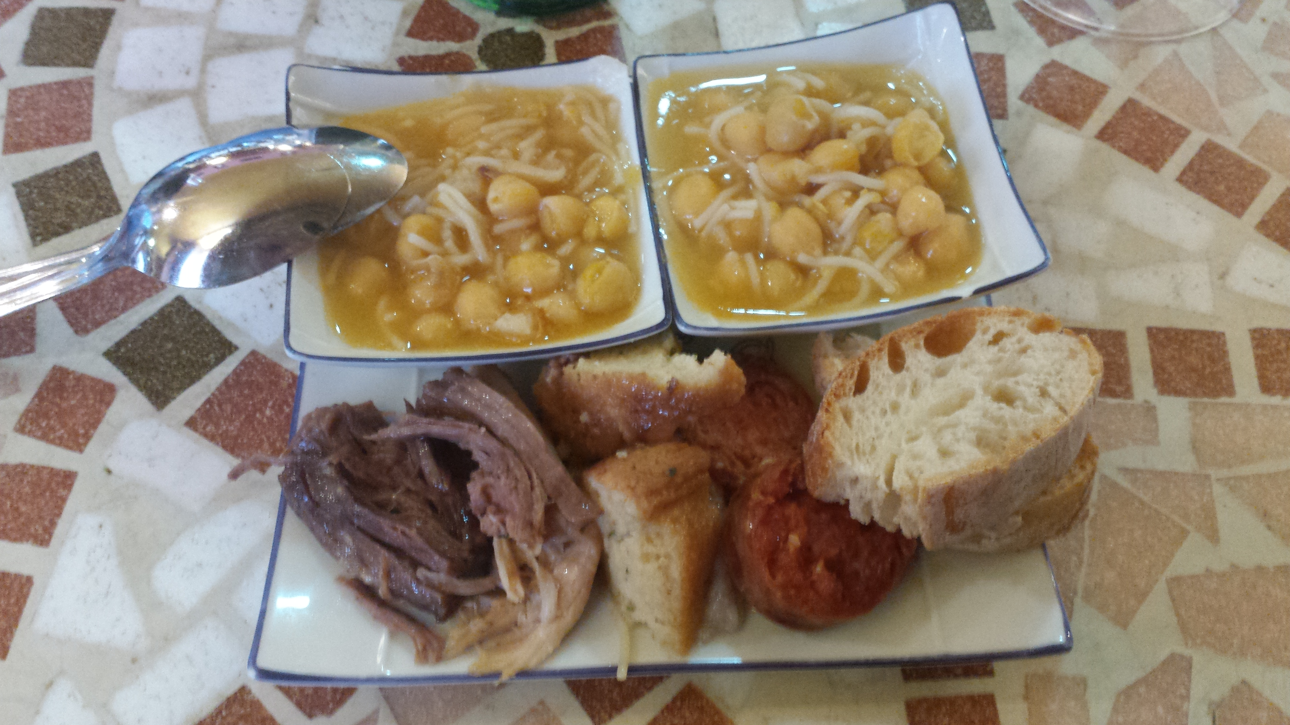 Tapa: a reproduction of a miniature stew from Ávila: chickpeas, noodles, sausage meat, egg and parsley bread filling, bacon, sausage and bread